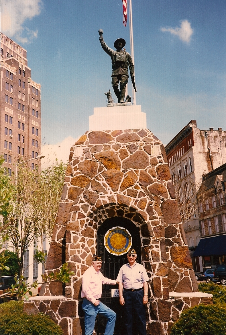 Doughboy Monument in downtown Meridian, Mississippi